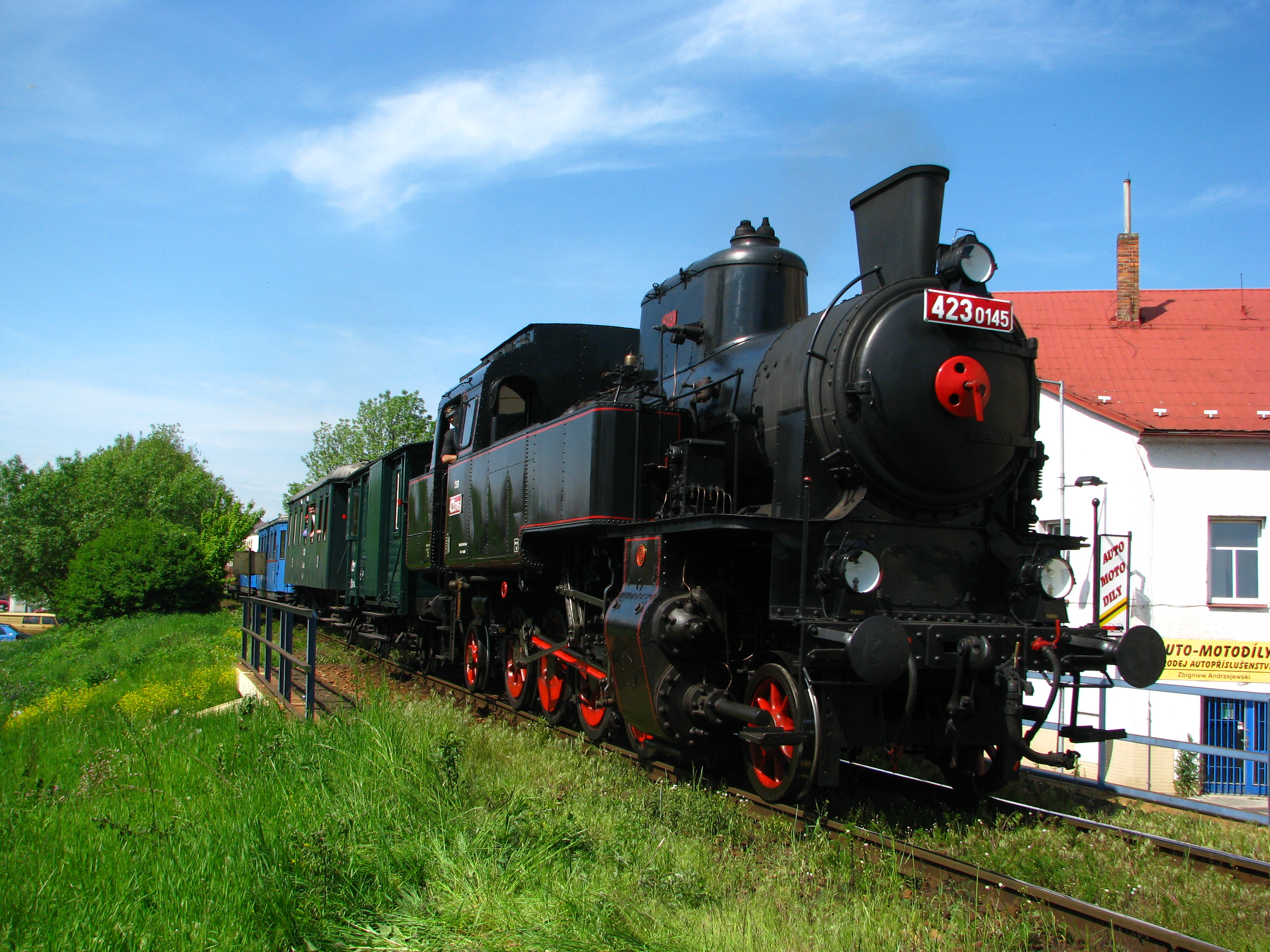 A ČSD Class 423.0 arrives from Náchod station (Czech Republic).